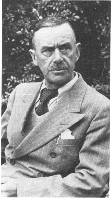 Thomas Mann in Noordwijk aan Zee, 1939